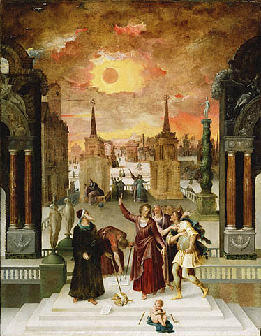 Dionysius Areopagite and the eclipse of Sun